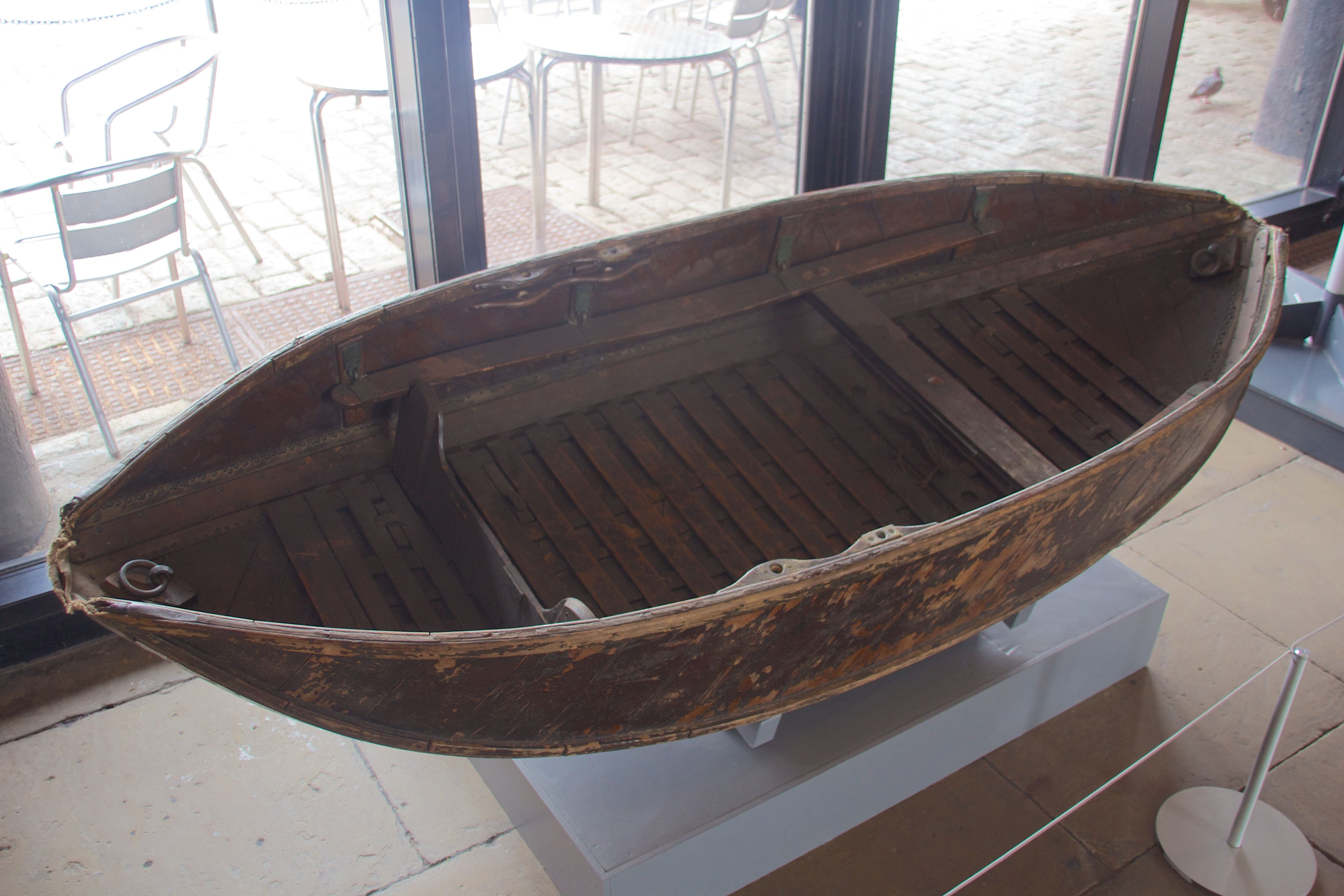 Shellbend folding boat, circa 1900. Designed by Mellard Treleaven Reade (1867-1943), who founded the 'Shellbend' folding boat company of Liverpool. Made of Mahogany. On display at the Merseyside Maritime Museum.